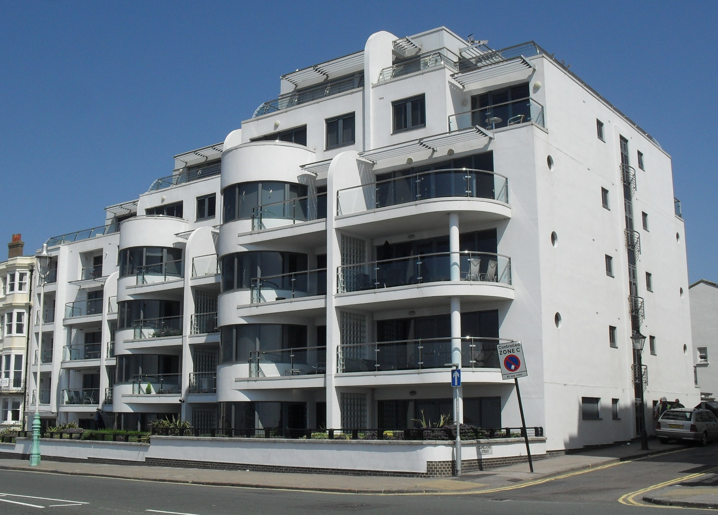 The Van Alen Building, Marine Parade, Brighton, City of Brighton and Hove, England. Designed in 1999–2001 by PRC Fewster Architects of London in a Neo-Art Deco/Streamline Moderne style reminiscent of the 1930s. It has 38 flats and apartments, all with sea views.